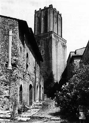 The Torre delle Milizie before the demolition of the convent of St. Catherine at Magnanapoli.